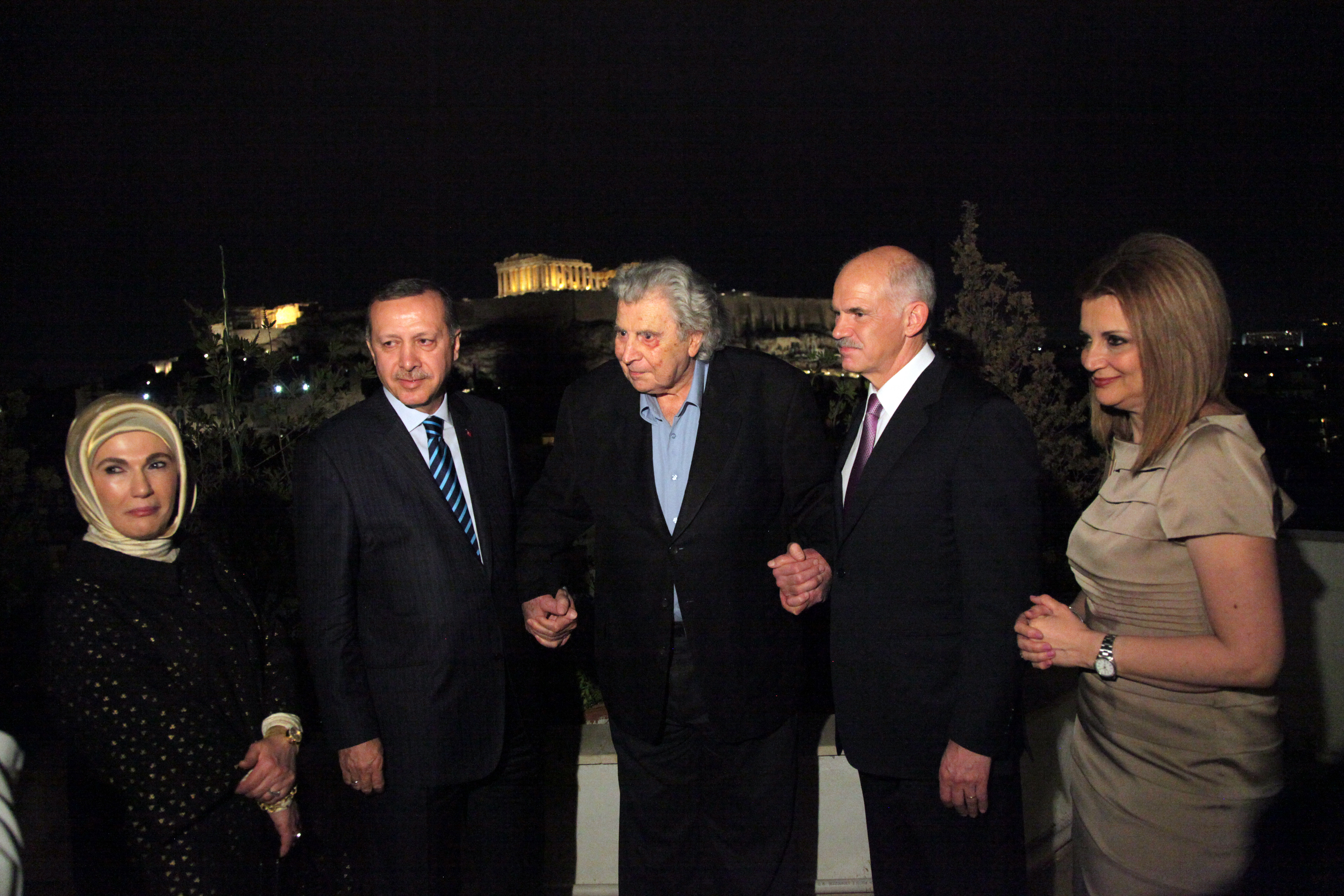 Turkish prime minister Recep Tayyip Erdoğan, Greek composer Mikis Theodorakis and Greek prime minister George Papandreou in Athens, May 2010.